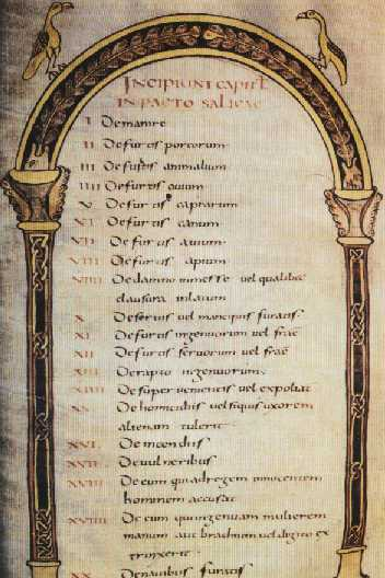 MANUSCRIT DE LA BIBLIOTHÈQUE ROYALE 4404 (ANCIEN FONDS)- Lex salica